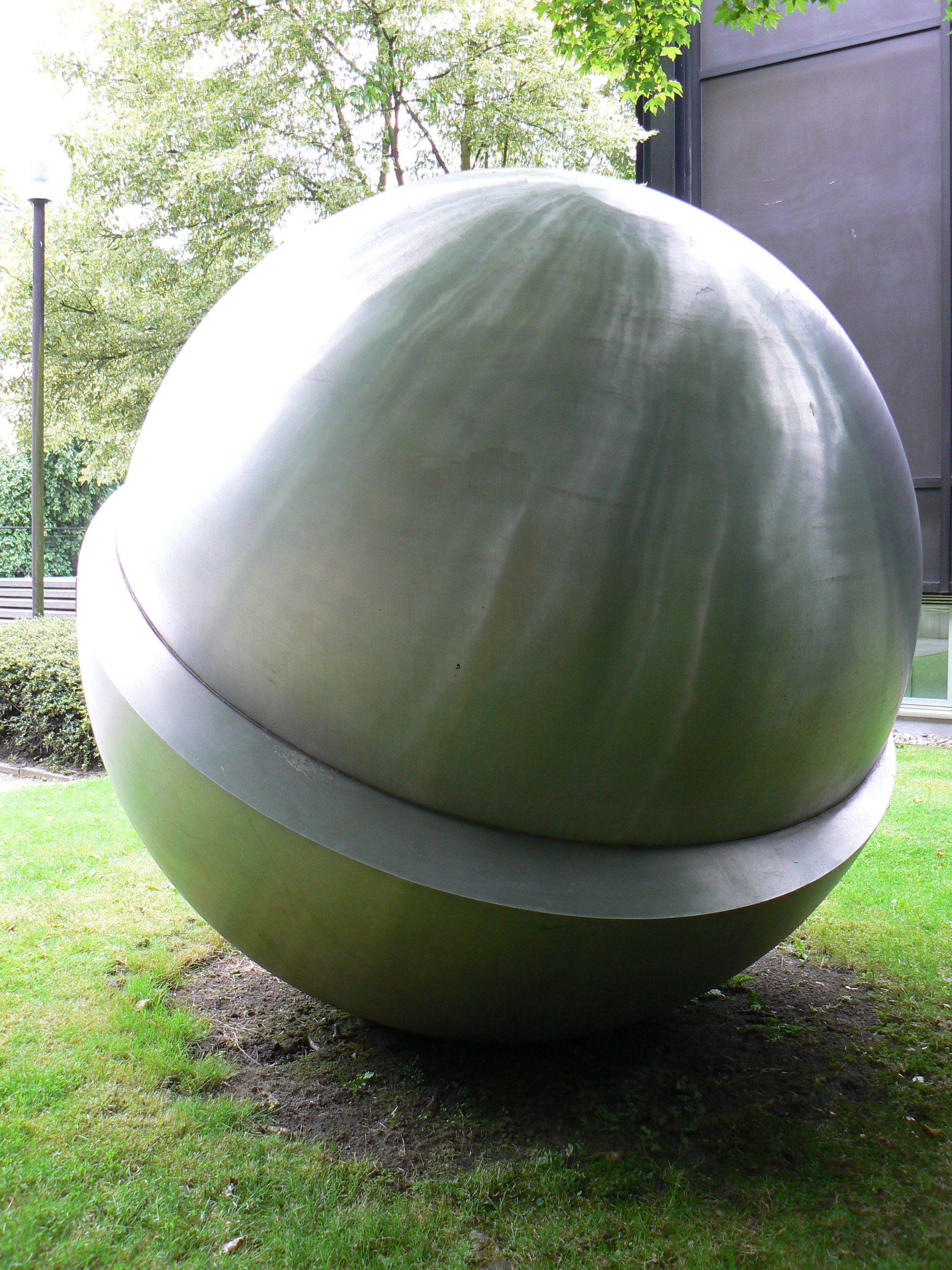 Sculpture in sculpturepark Quadrat Bottrop (Moderne Galerie) in Bottrop/Germany. Sculptor: Ernst Hermanns Titel: Zwei gegeneinander verschobene Halbkugeln (1977)